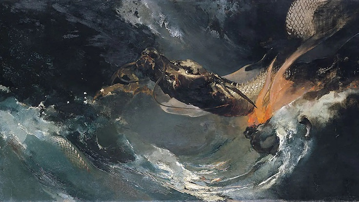 Dragon and Clouds, by Kawamura Kiyoo, Fukutomi Taro Collection